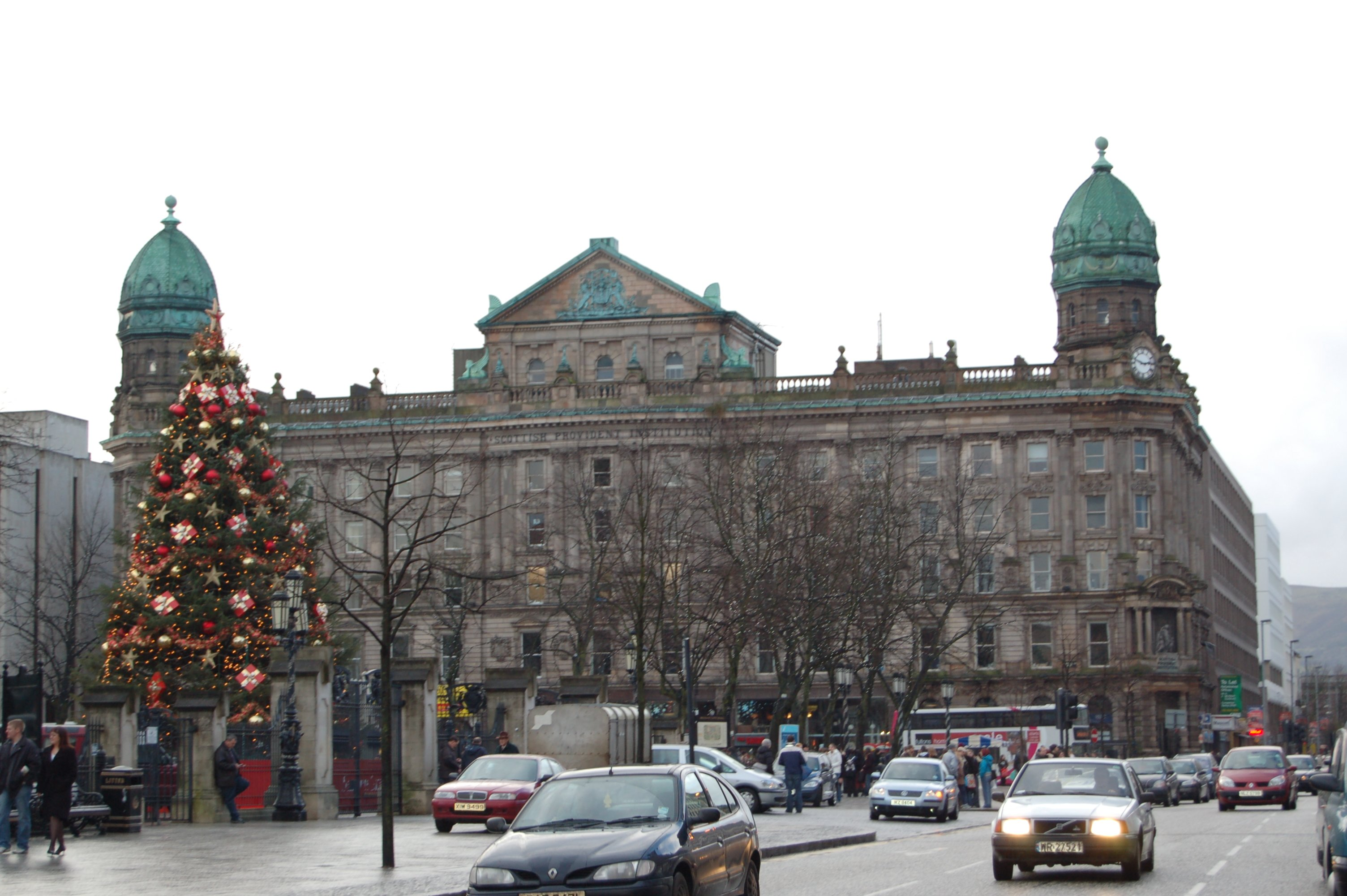 (C) Gerry Lynch, 2005. The Scottish Provident Building is characteristic of much Victorian commerical architecture in the City Centre.